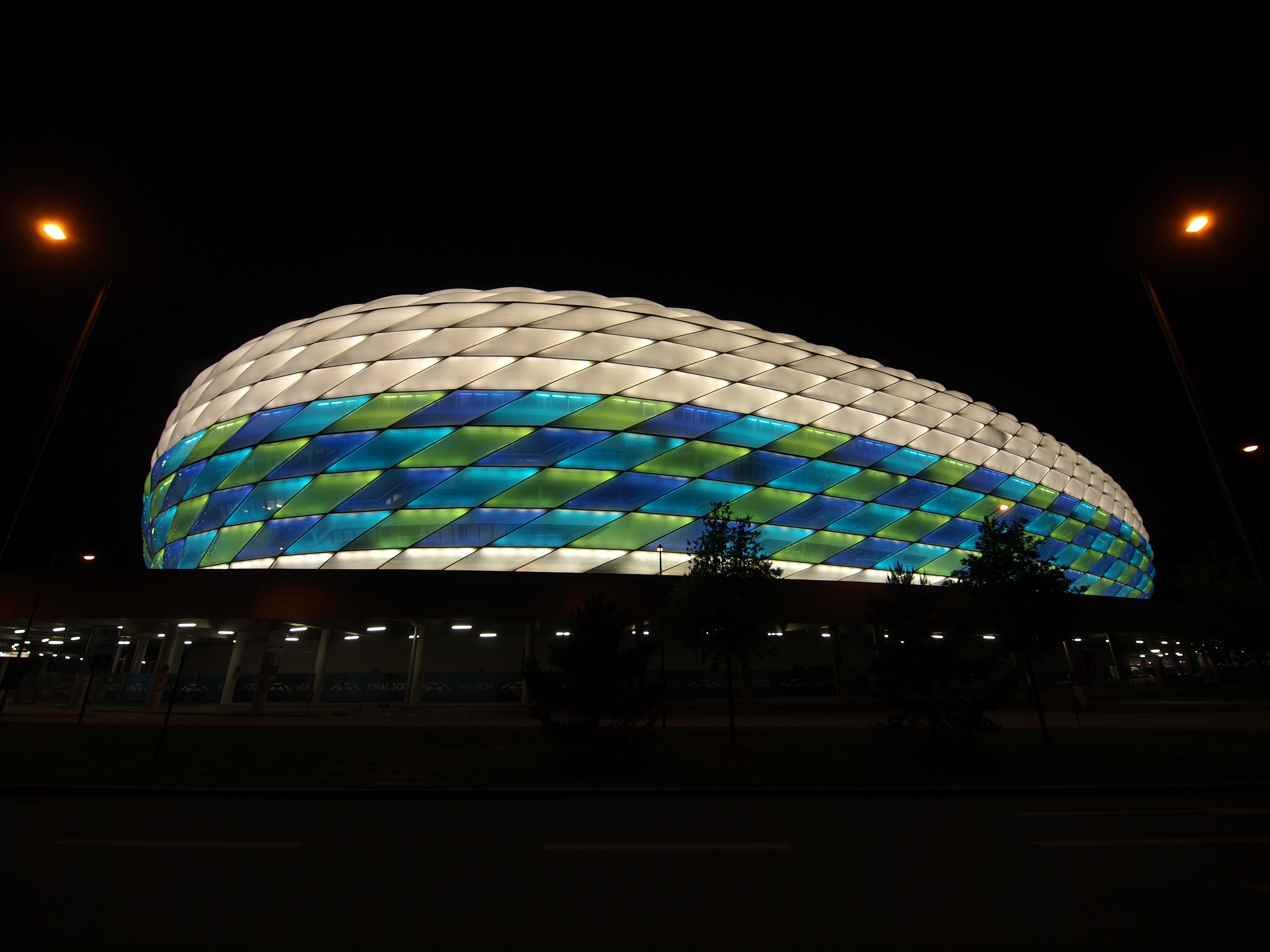 The illumination of the Allianz Arena during the UEFA Champions League 2011/2012.